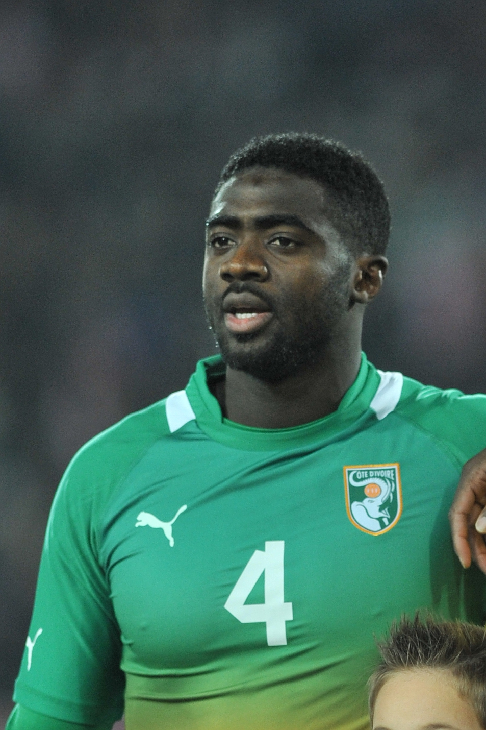 ÖFB freundschaftliches Länderspiel - Österreich vs Elfenbeinküste am 14. November 2012 The making of this work was supported by Wikimedia Austria. For other files made with the support of Wikimedia Austria, please see the category Supported by Wikimedia Österreich. Elfenbeinküste Nr. 4:Kolo Touré